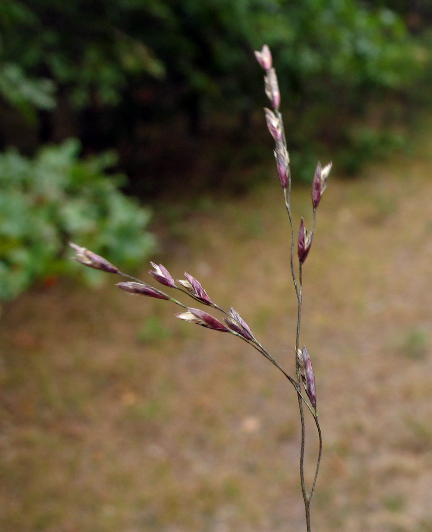 Bluegrass stem showing why it's called "bluegrass." The seed pods go from green to purplish blue to brown. During the purplish phase the stems also appear to be navy blue. Photo by poster in October 2007. NOTE: I believe this is Poa trivialis. This was photographed in a swampy shaded area next to a golf course in October. Any help on identifying it would be appreciated.